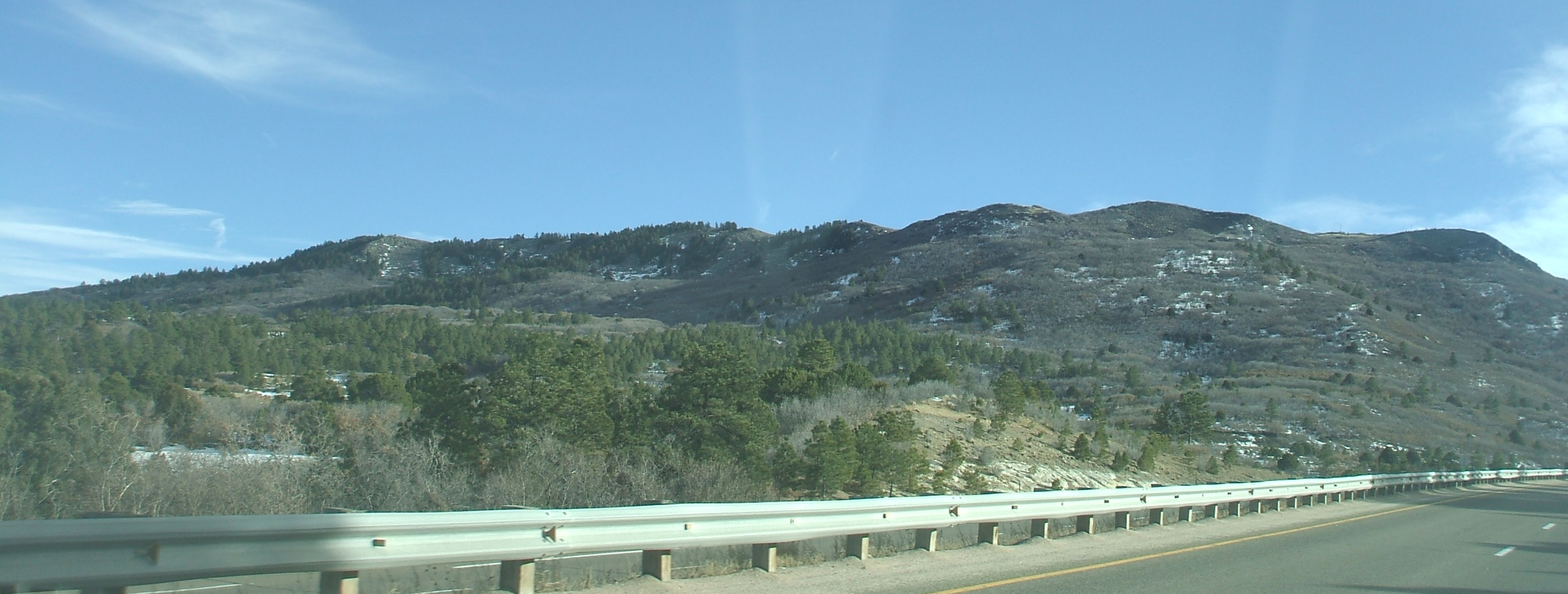 Bartlett Mesa of New Mexico as seen from Colorado along Interstate 25 southbound headed up Raton Pass.